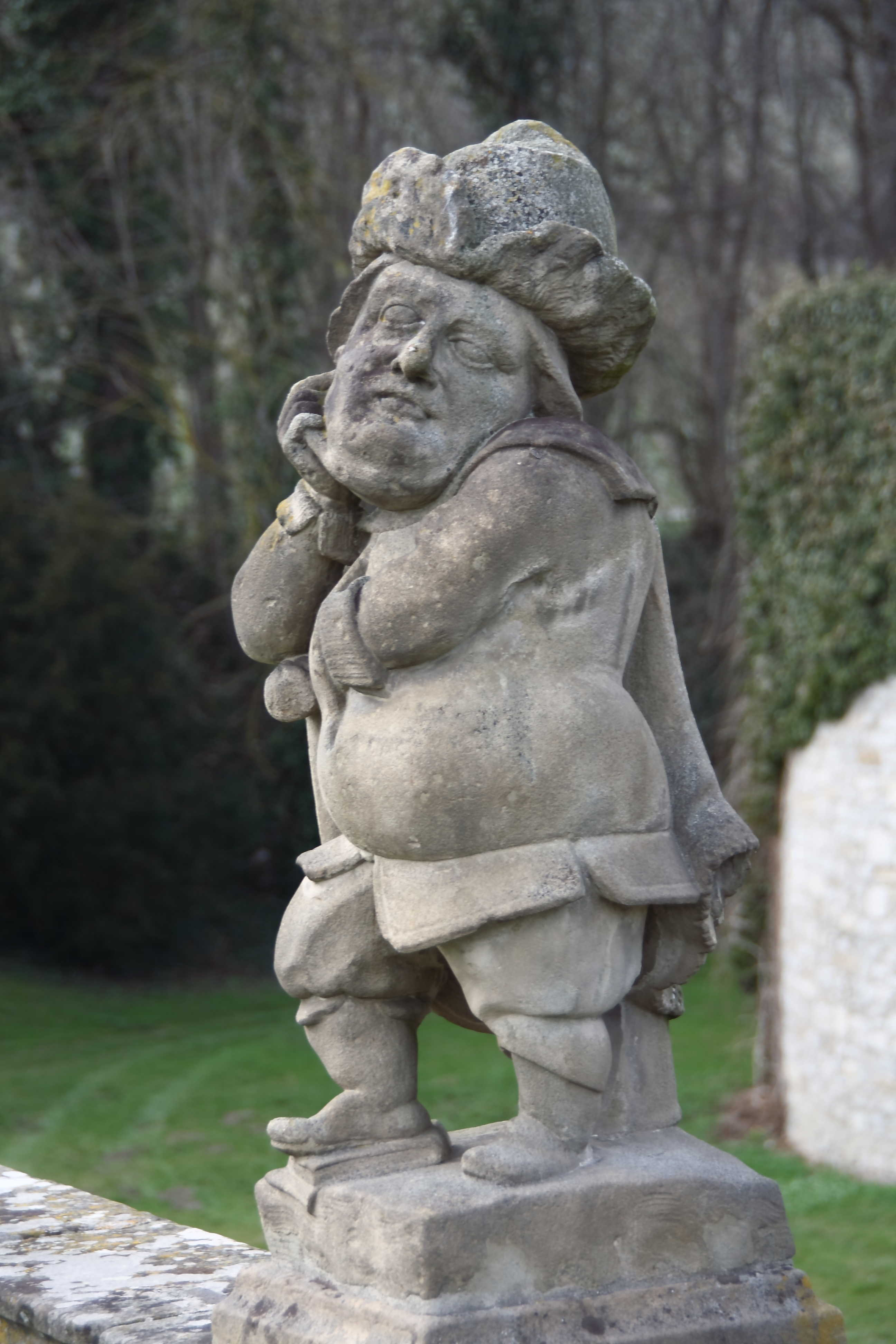 The sluggard